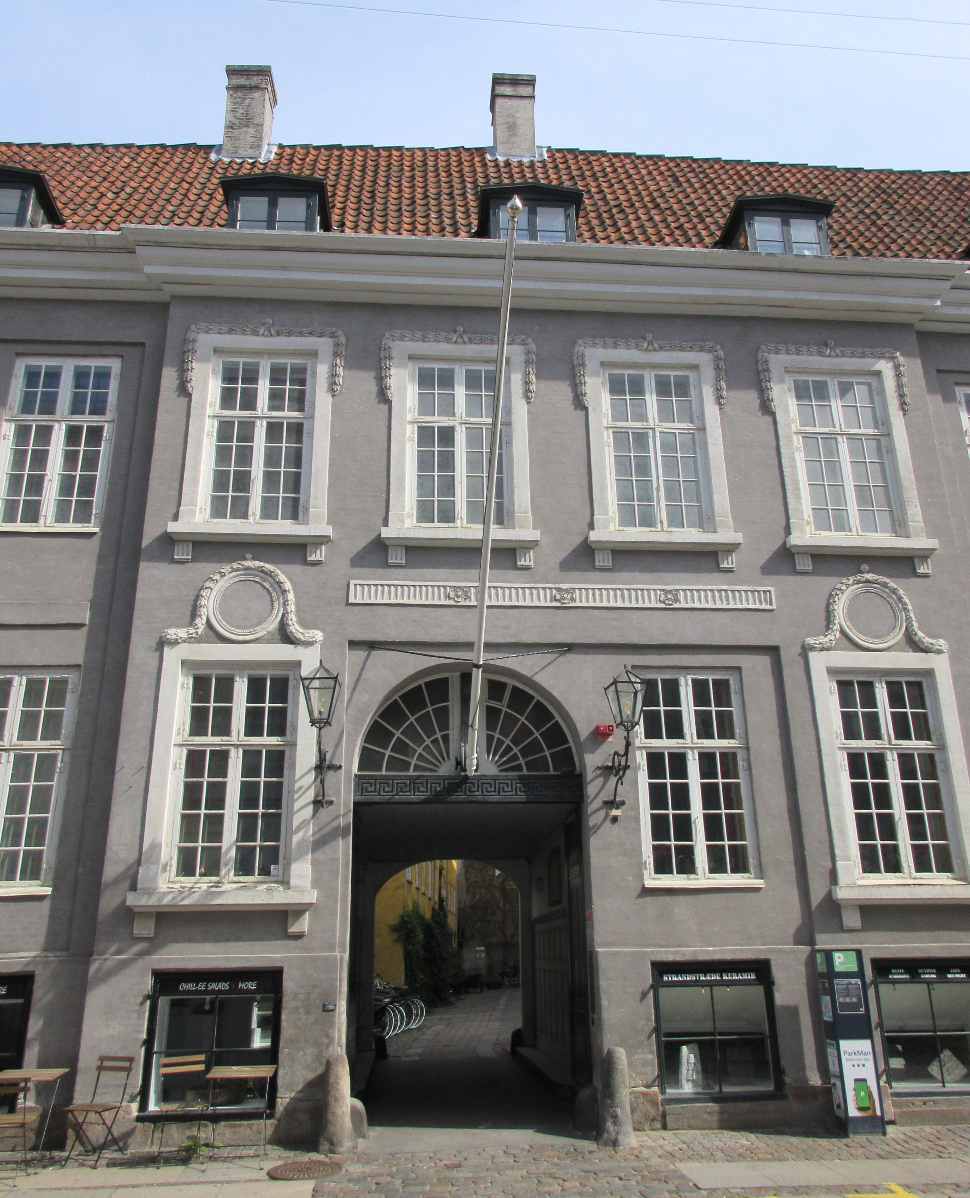 Lille Strandstræde 16 in Copenhagen, Denmark